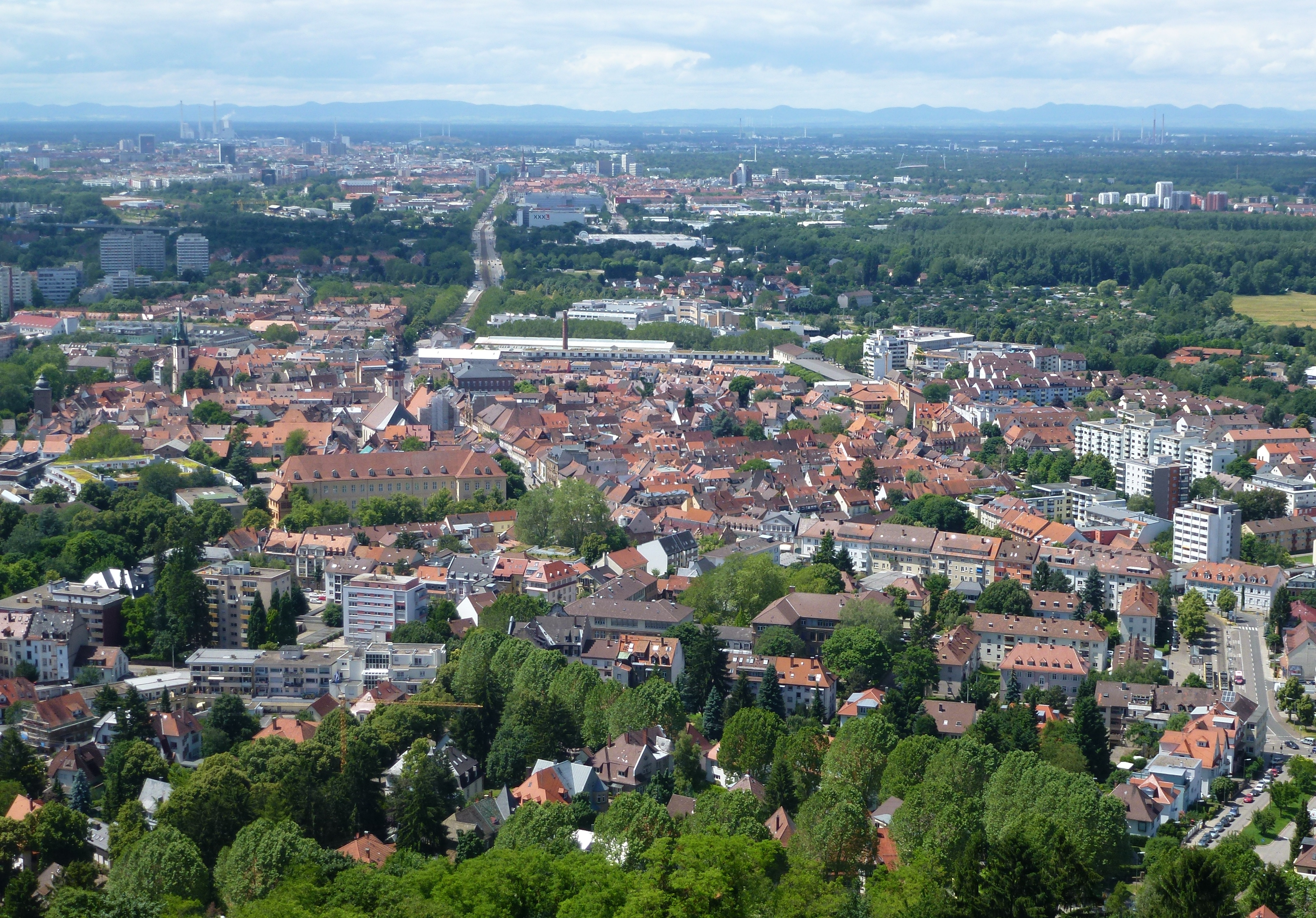 City of Karlsruhe (Germany), view from Turmberg in Karlsruhe-Durlach, 2013